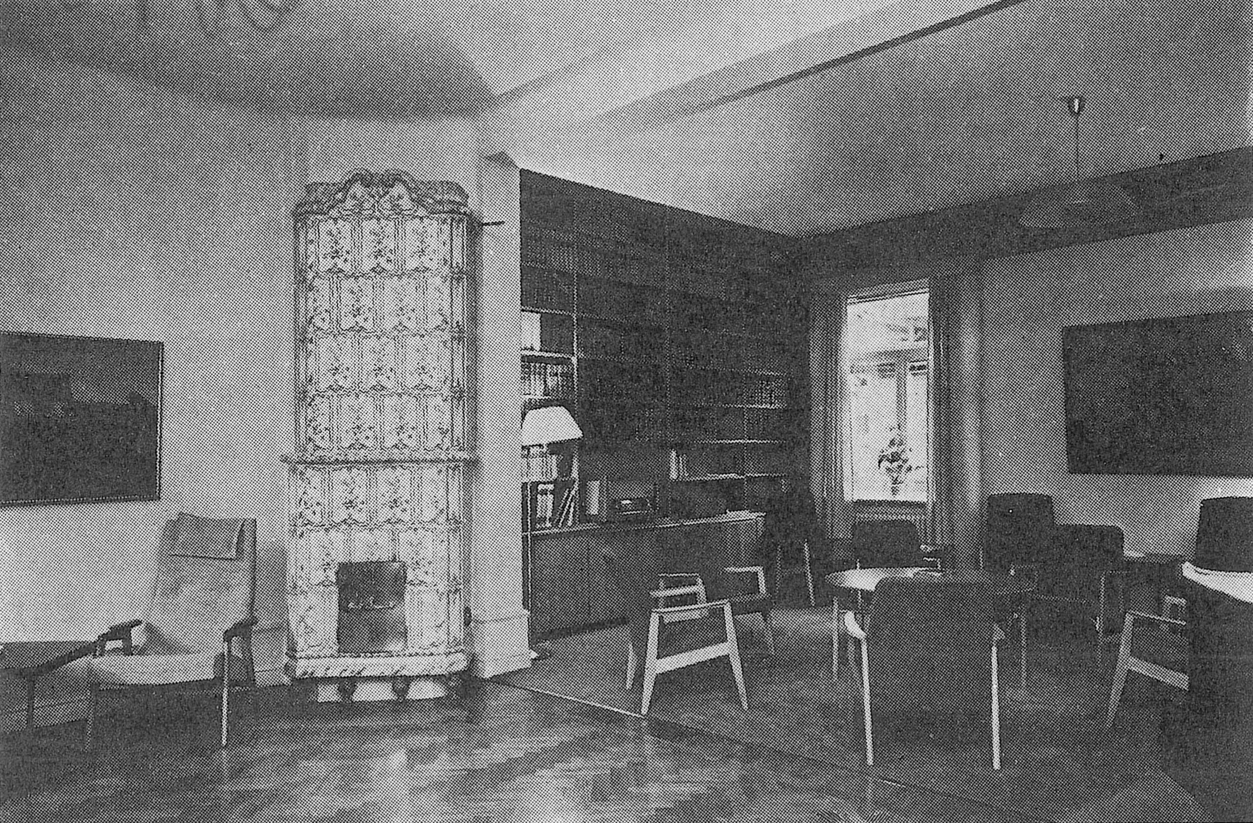 Kalmar Nation, Living room with Marieberg tiled stove, towards library.